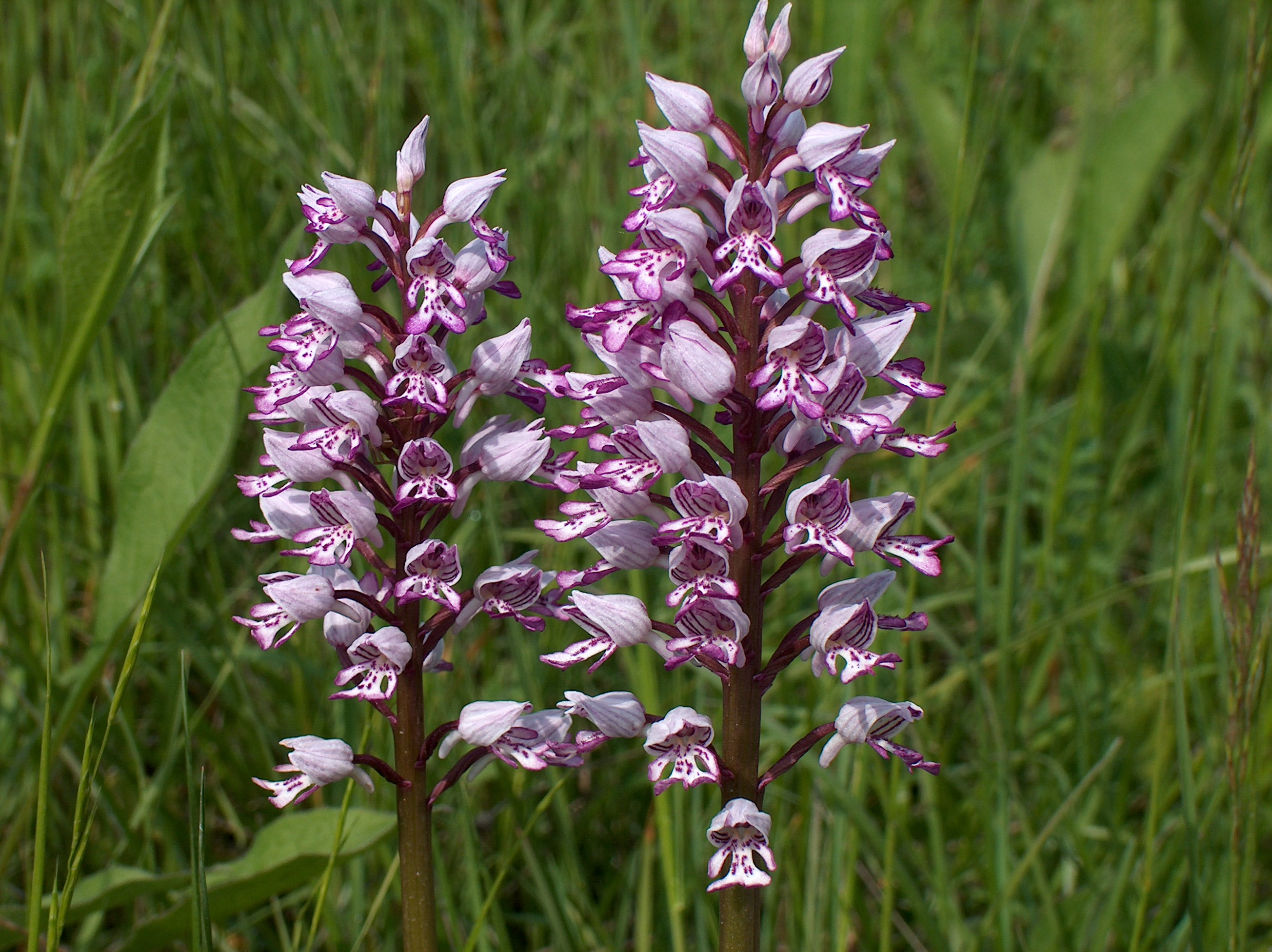 Military orchid Orchis militaris L., Family Orchidaceae, 55cm high, second half of May, Dolomite Mnts, Italy